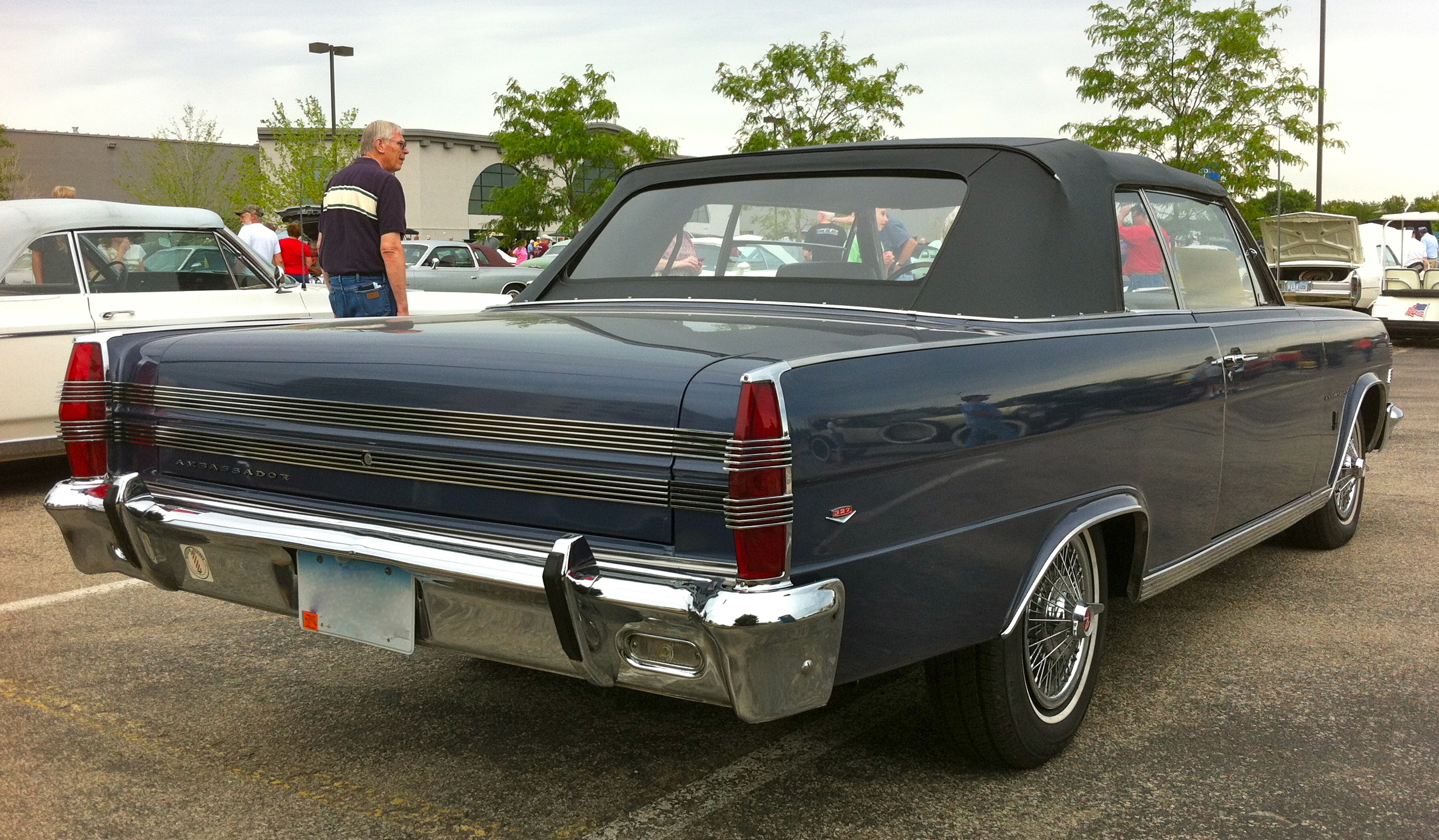 1966 AMC Ambassador 990 convertible finished in blue - rear right side view. A full-sized automobile built by American Motors Corporation (AMC) in Kenosha, Wisconsin. This is an all original one-owner car that was special ordered by them. Among the features on this car are its 327 cu in (5.4 L) 4--barrel carb V8 engine with a 4-speed manual transmission, center console mounted shifter with black bucket seats, as well as an AM/FM radio and an aftermarket 8-track stereo player. Picture taken at the 2012 Antique Automobile Club of America (AACA) Central Spring meet in Cedar Rapids, Iowa, USA